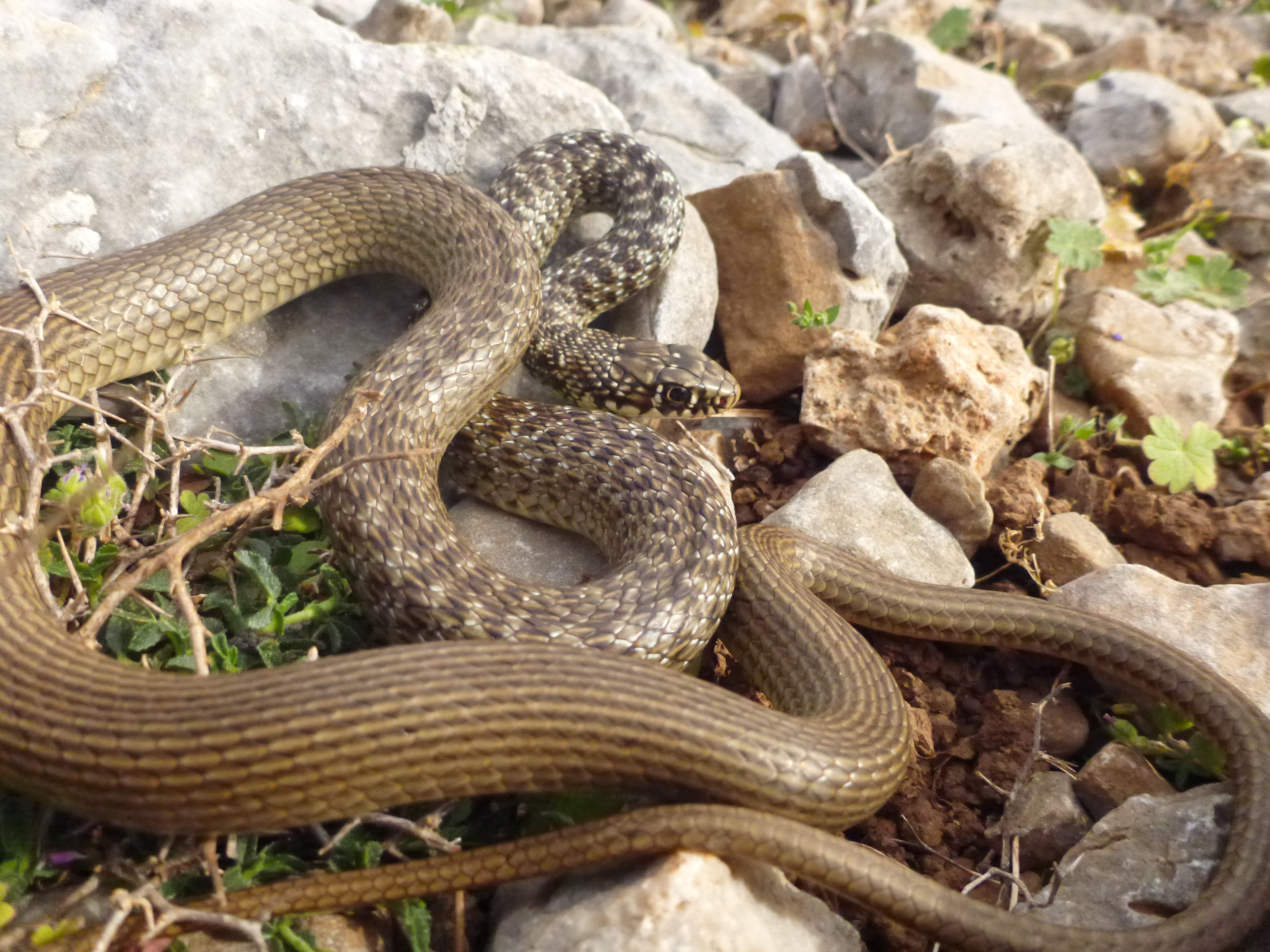 This is a photography of Natura 2000 protected area with ID GR4340014